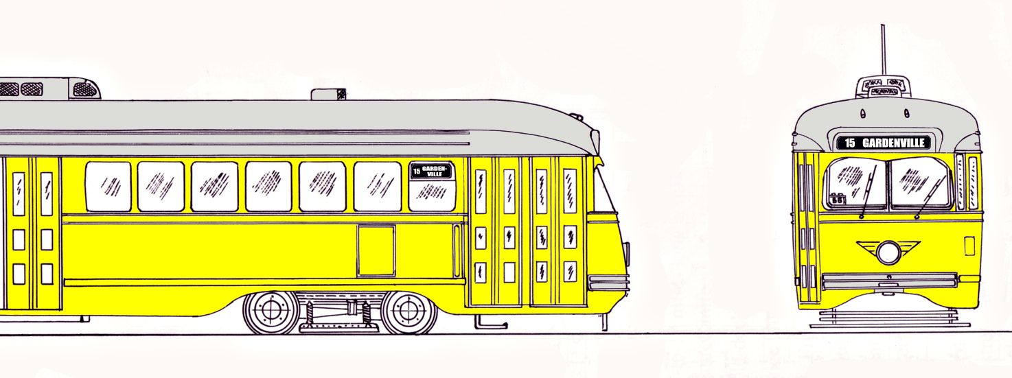 «Baltimore Transit Corp. : Color scheme» (original caption)